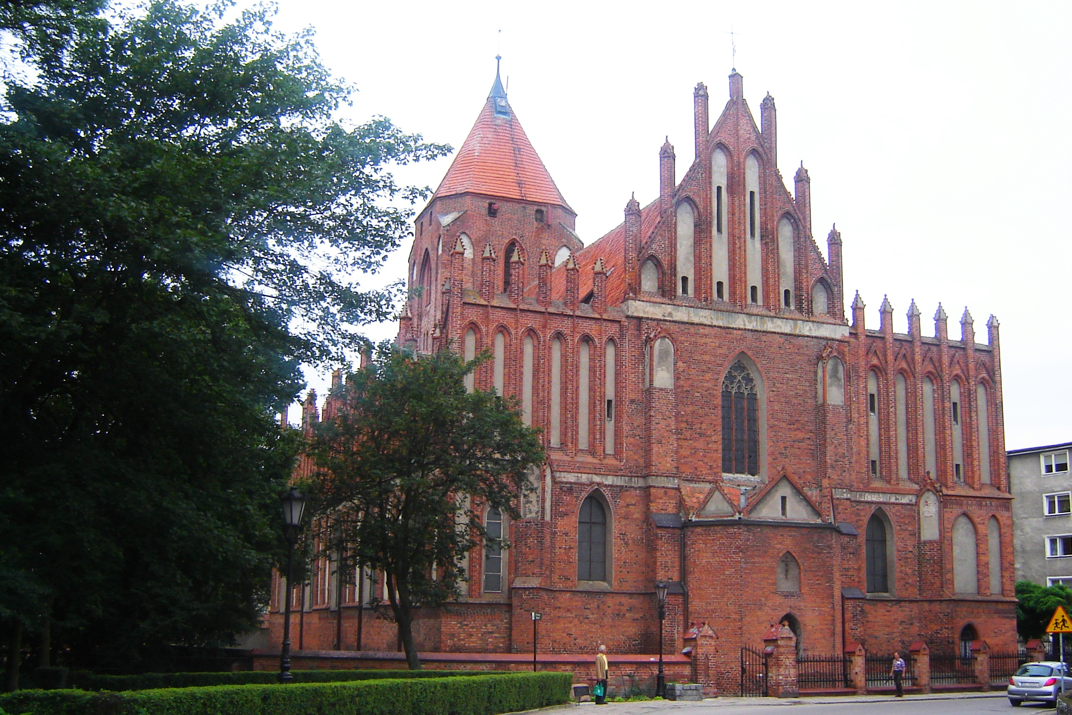 Saint John the Baptist church in Orneta, Poland